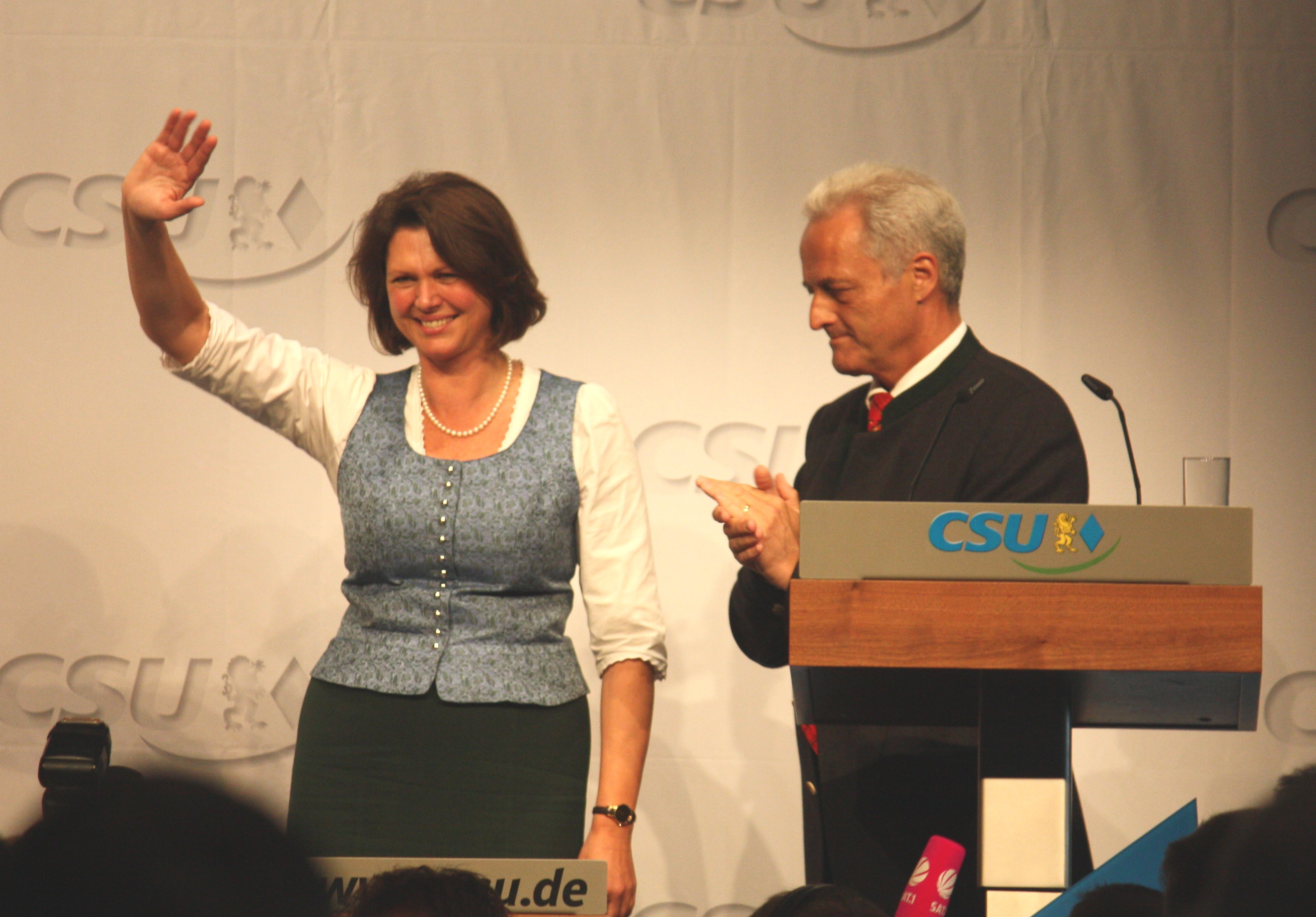 Federal ministers Ilse Aigner and Peter Ramsauer